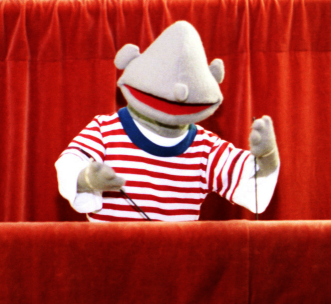 A hand puppet in the final stages of construction, with arm rods. When this photo was taken, the eyes and hair still needed to be added. Puppet built by Nathan and Sarah Eady, photo by Jill Eady, with Nathan Eady as the invisible puppeteer, circa 2001.